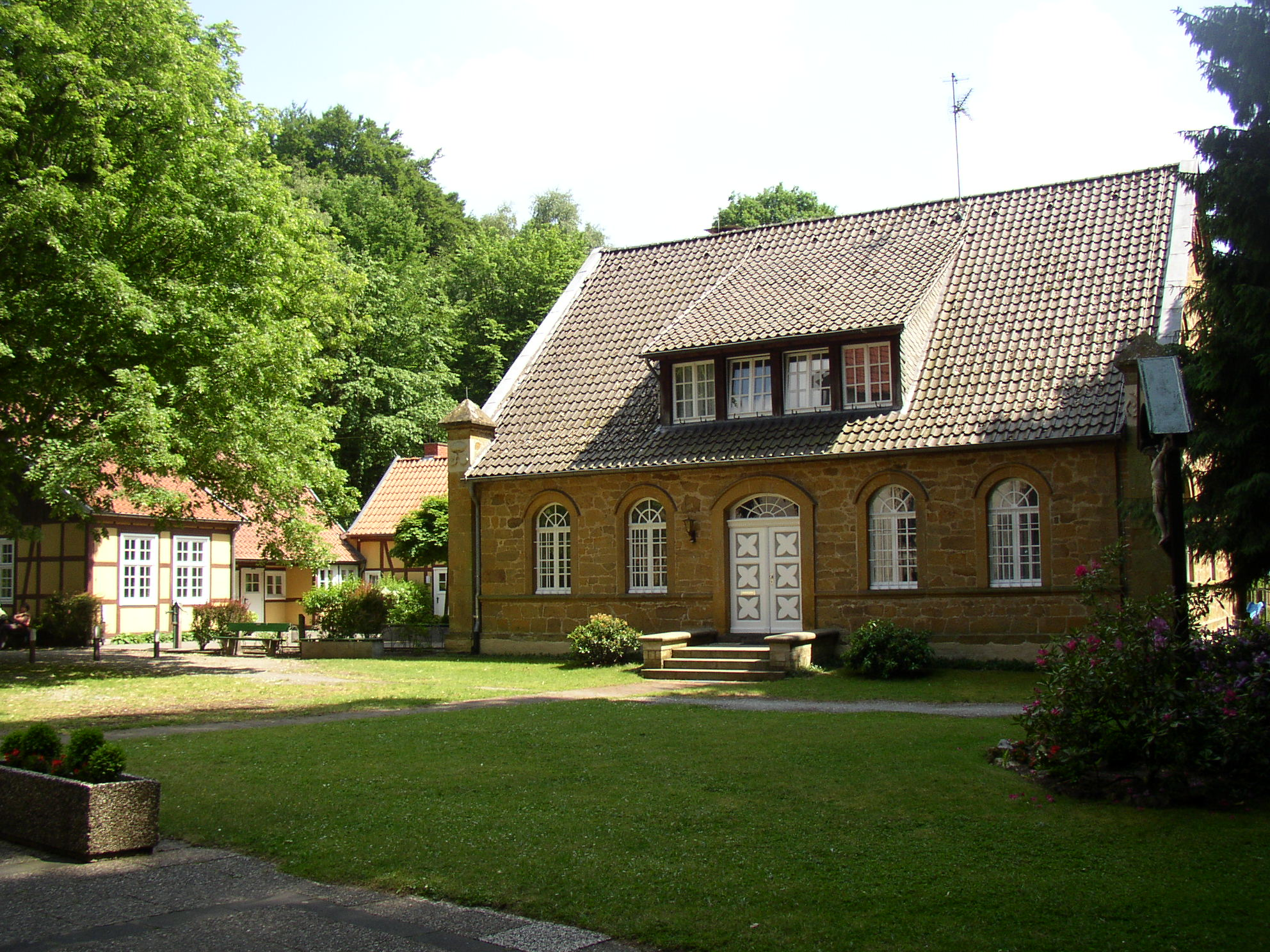 parsonage in Stockkämpen in Halle (Westfalen)